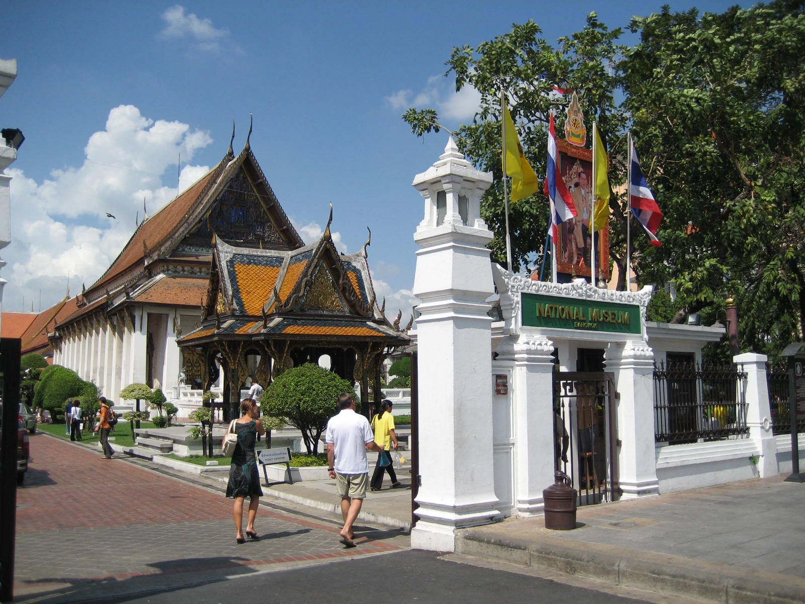 National Museum, Bangkok, Buddhaisawan Chapel in the background